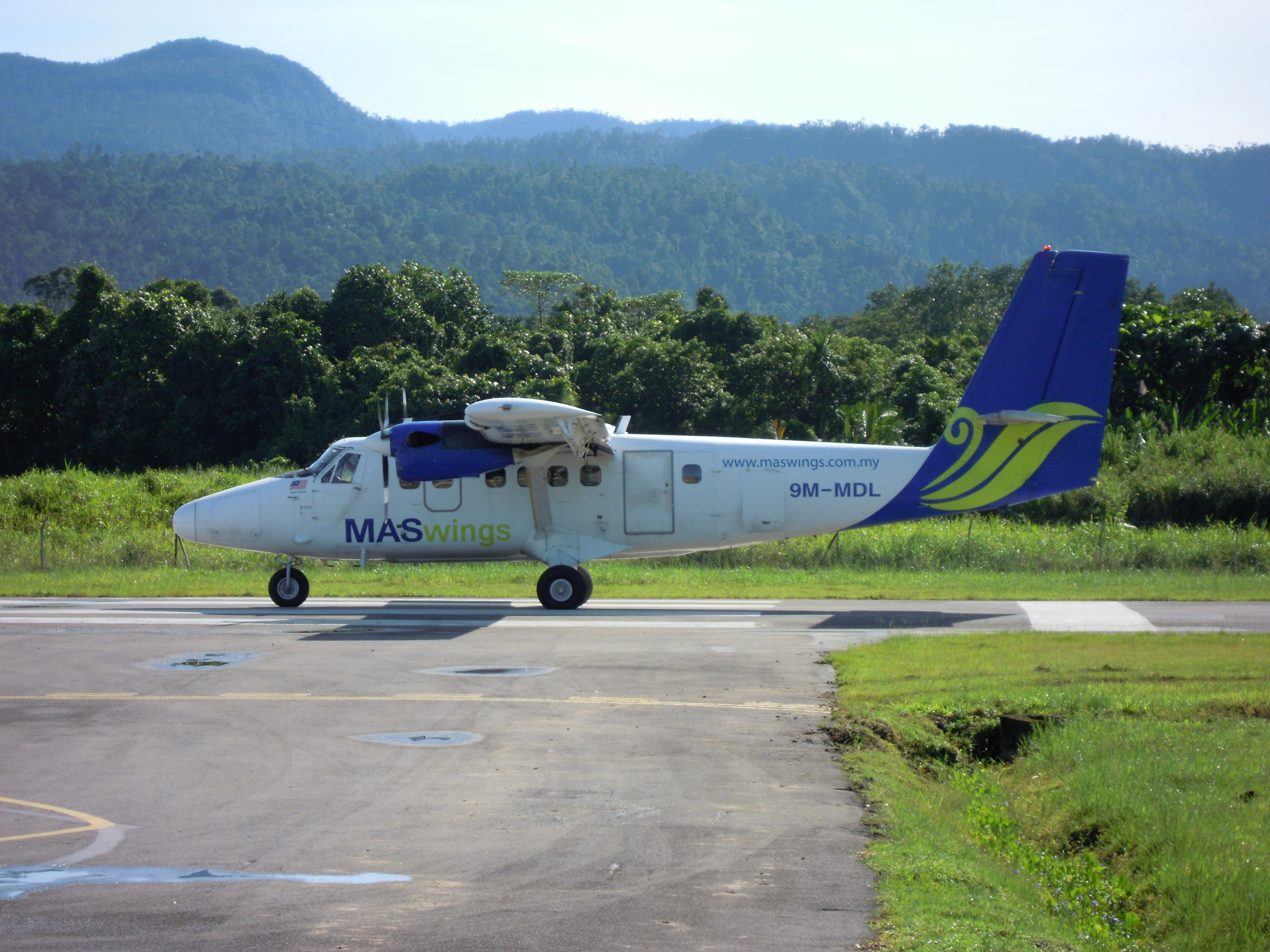 MASwings Twin Otter series 300 (MDL - now retired) spooling up for take off from RWY01 at Lawas Airport, Sarawak, bound for Miri